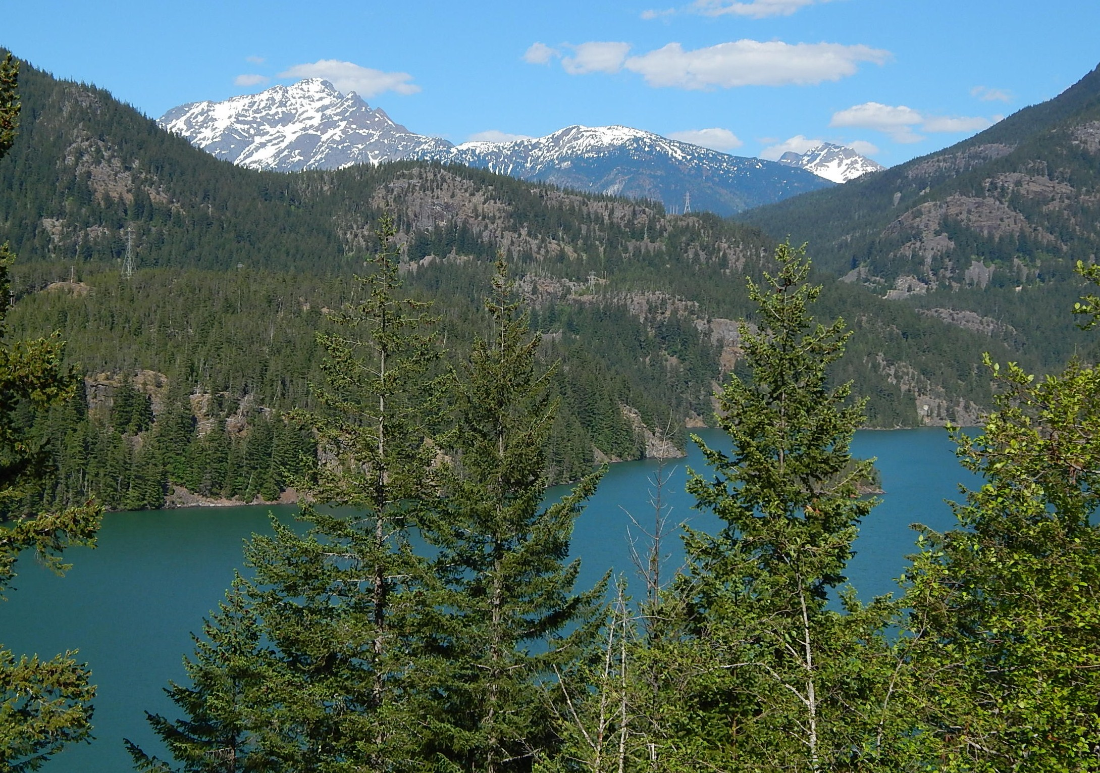 Jack Mountain and Diablo Lake seen from North Cascades Highway